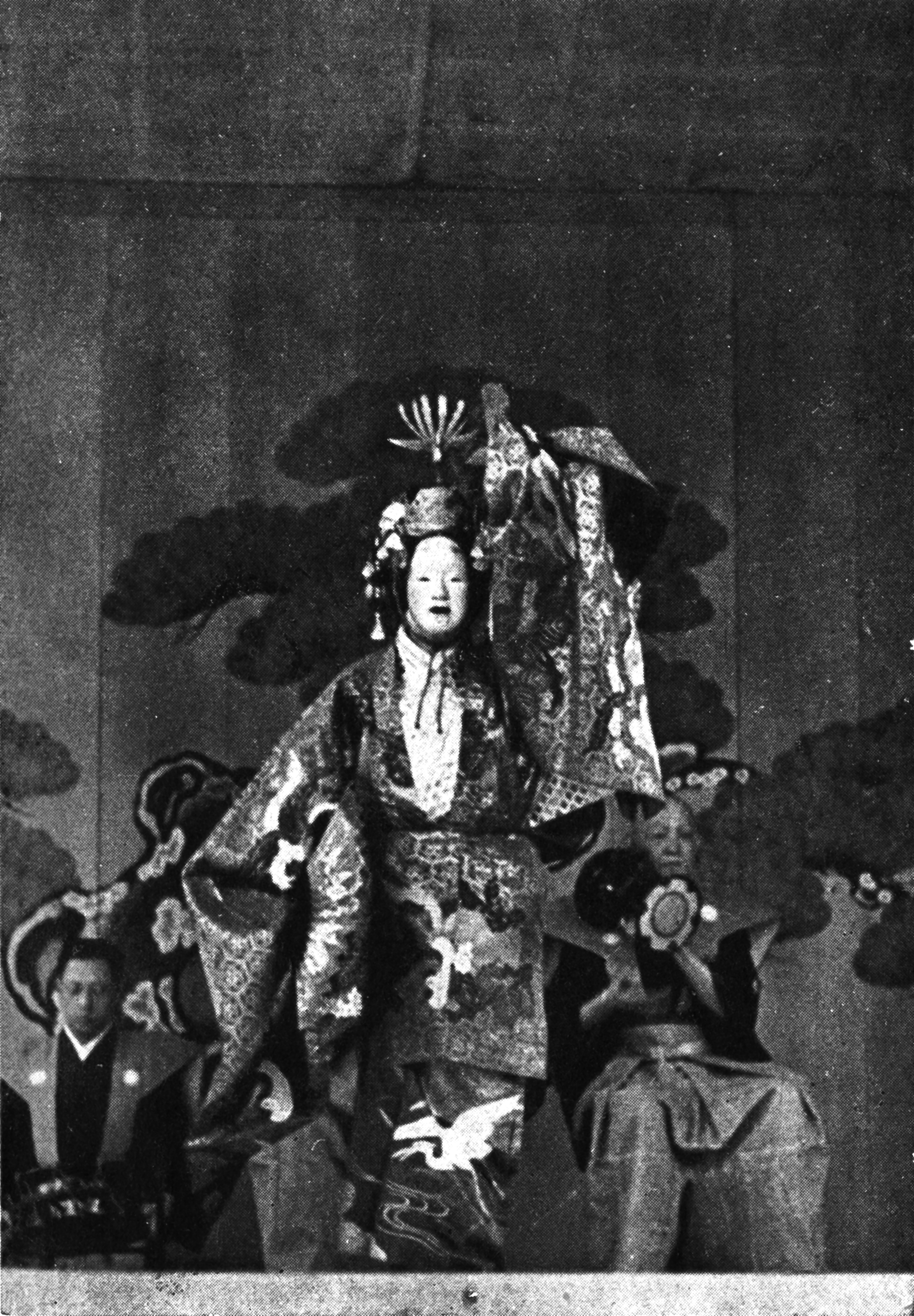 stage photo: Noh play Hagoromo, UMEWAKA Rokuro(LIV, aka UMEWAKA Minoru II)